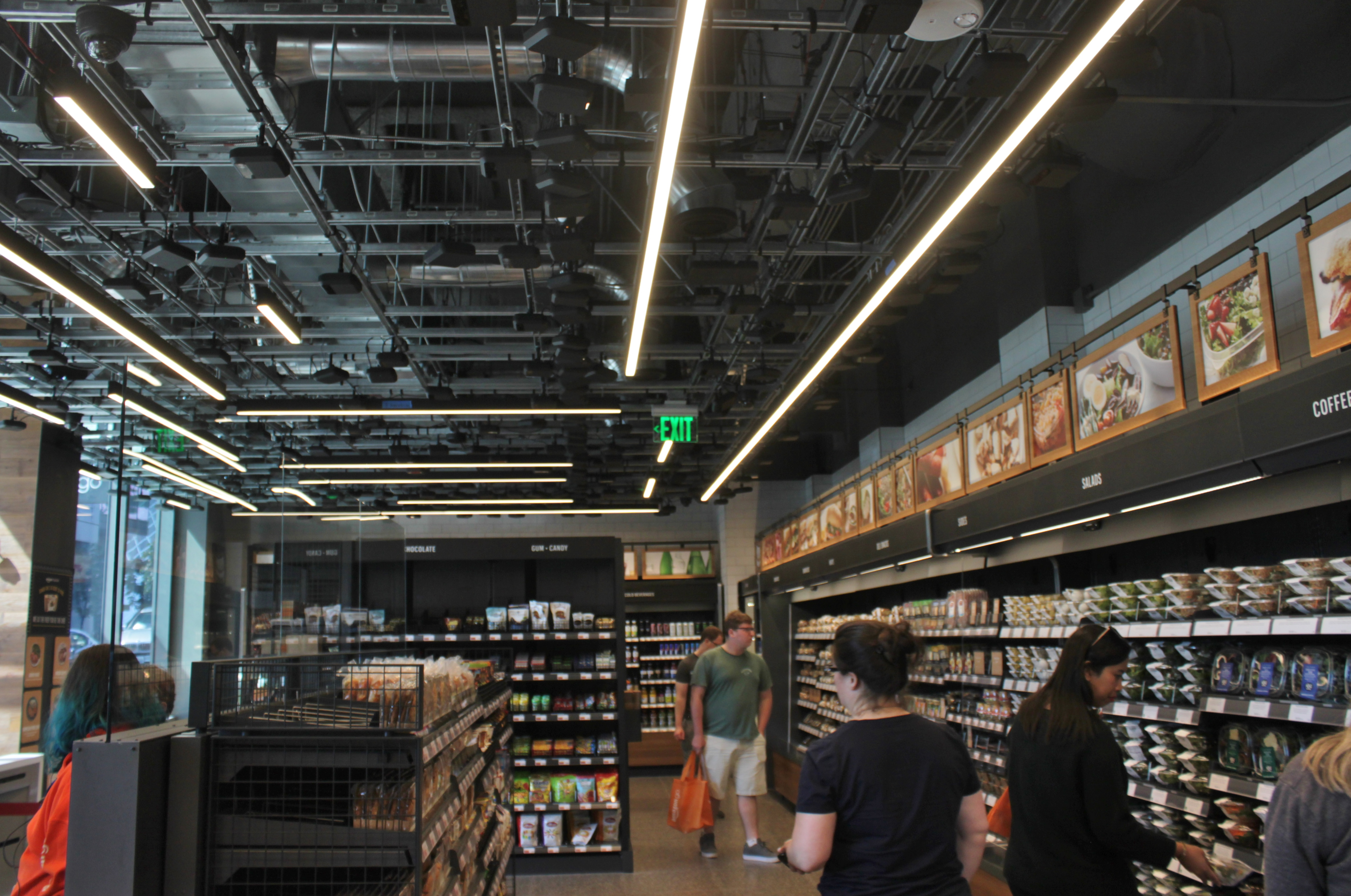 Amazon Go at Madison Centre